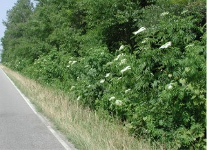 Elderberry (Sambucus) in bloom, in a roadside hedgerow.